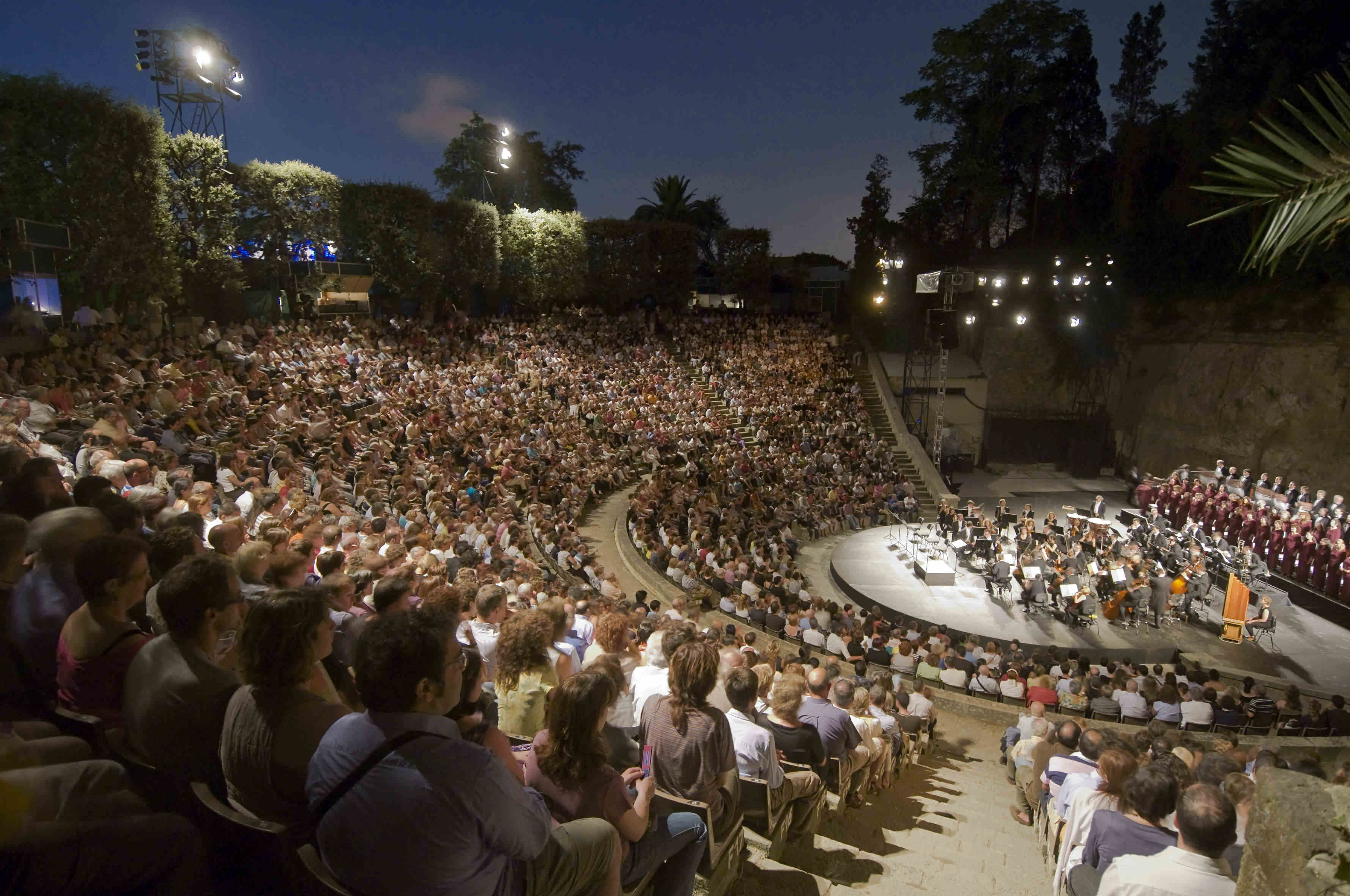 The Teatre Grec, built on Mount Montjuïc for the 1929 Universal Exhibition.